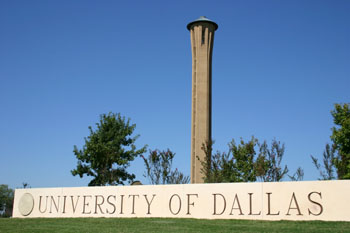 UD Campus Sign